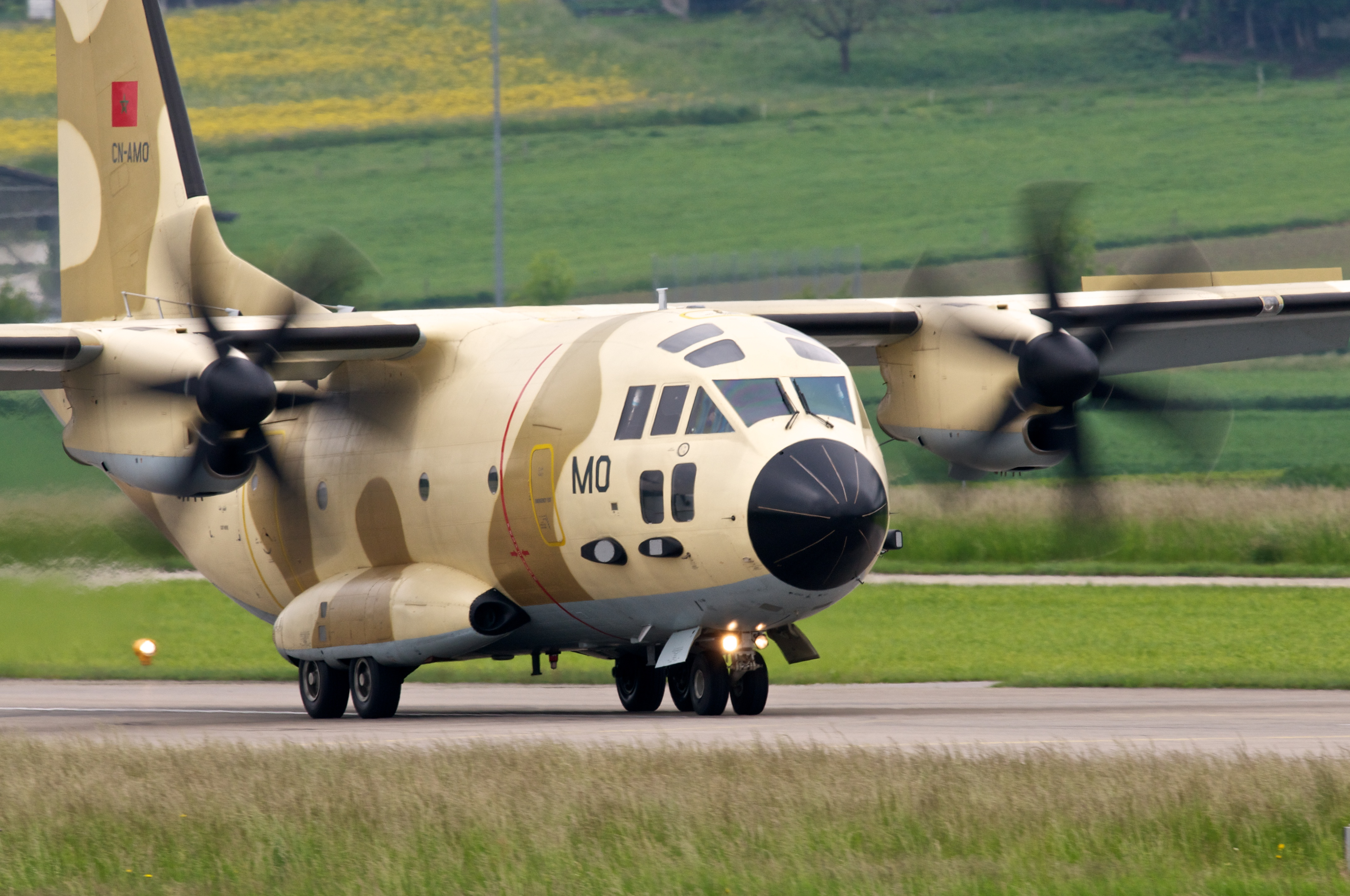 Payerne Airbase